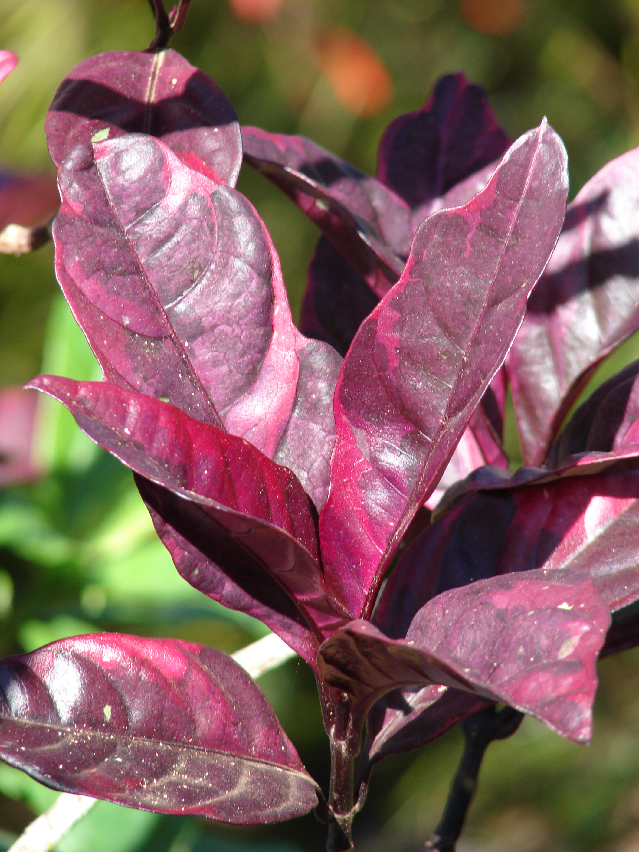 Pseuderanthemum carruthersii var. atropurpureum (leaves). Location: Maui, Enchanting Floral Gardens of Kula